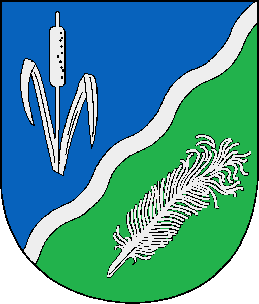 Coat of arms of the municipality Christinenthal in Schleswig-Holstein, Germany.